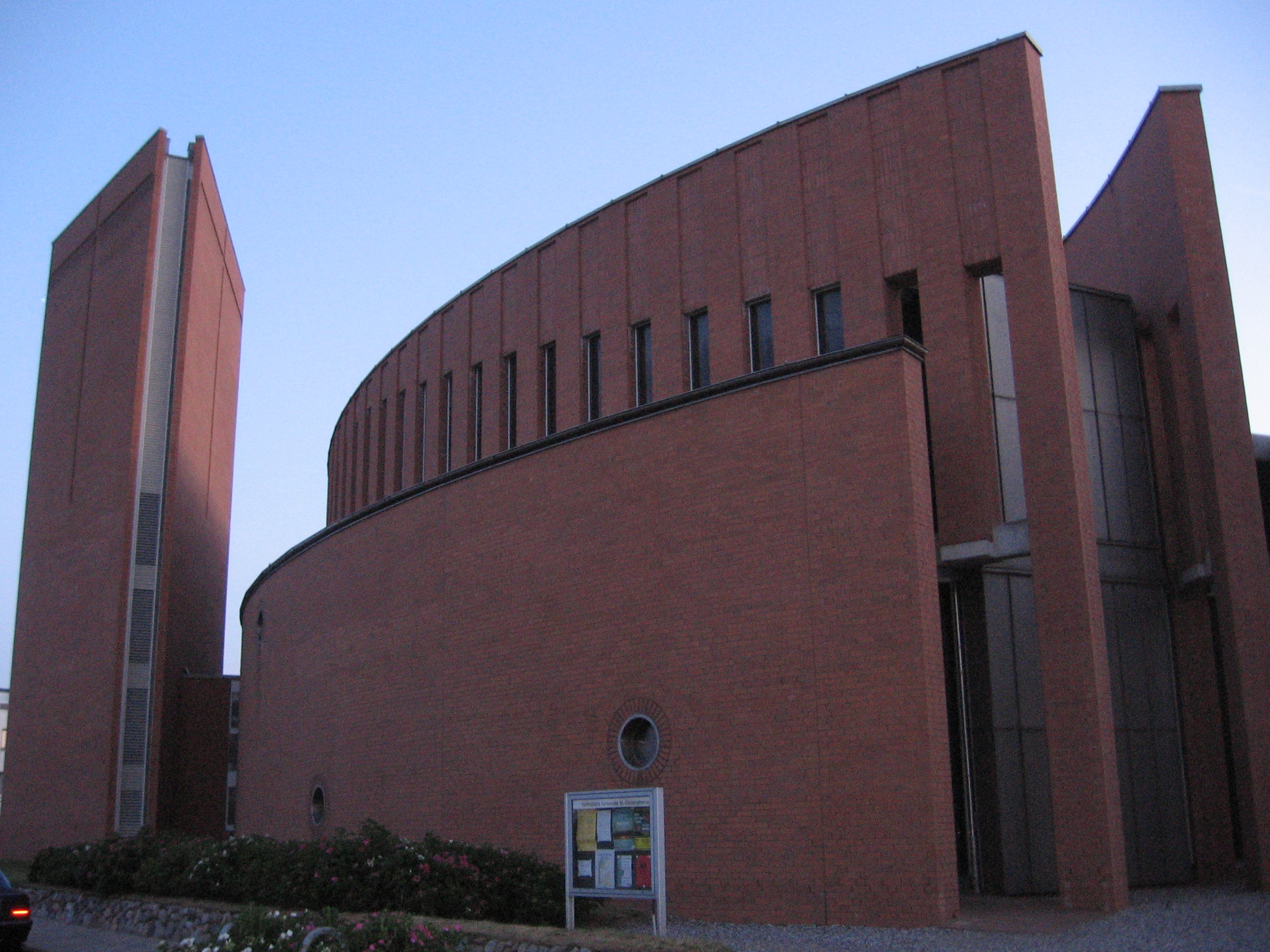 The catholic St. Christophers Church in Westerland, Germany.